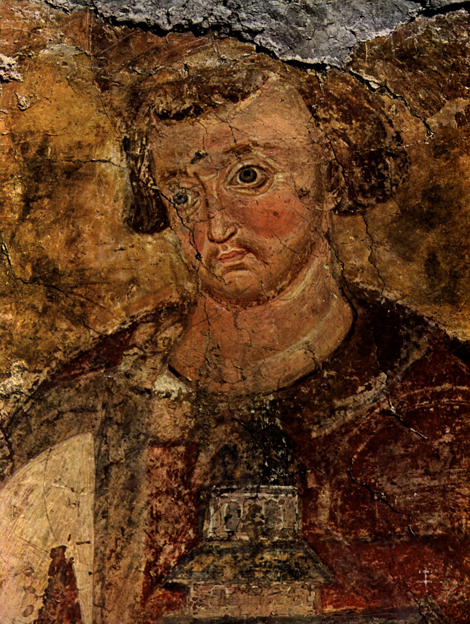 Stefan Vladislav I of Serbia